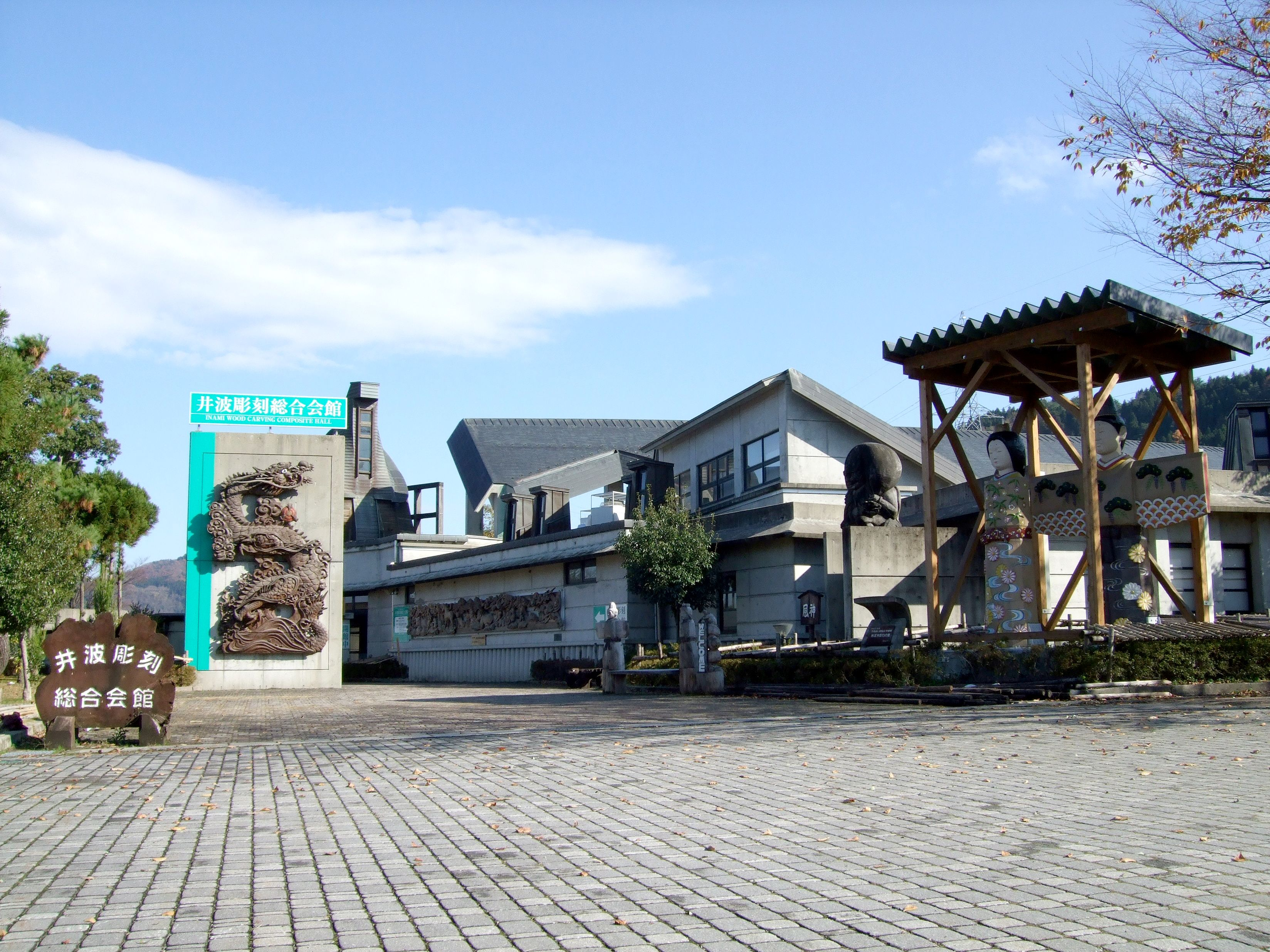 Roadside Station in Inami, Nanto, Toyama, Japan